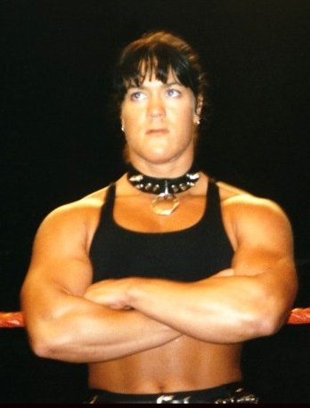 American professional wrestler, actress, and model Joanie Laurer, also known as Chyna. Taken at the US Air Arena Landover, MD.